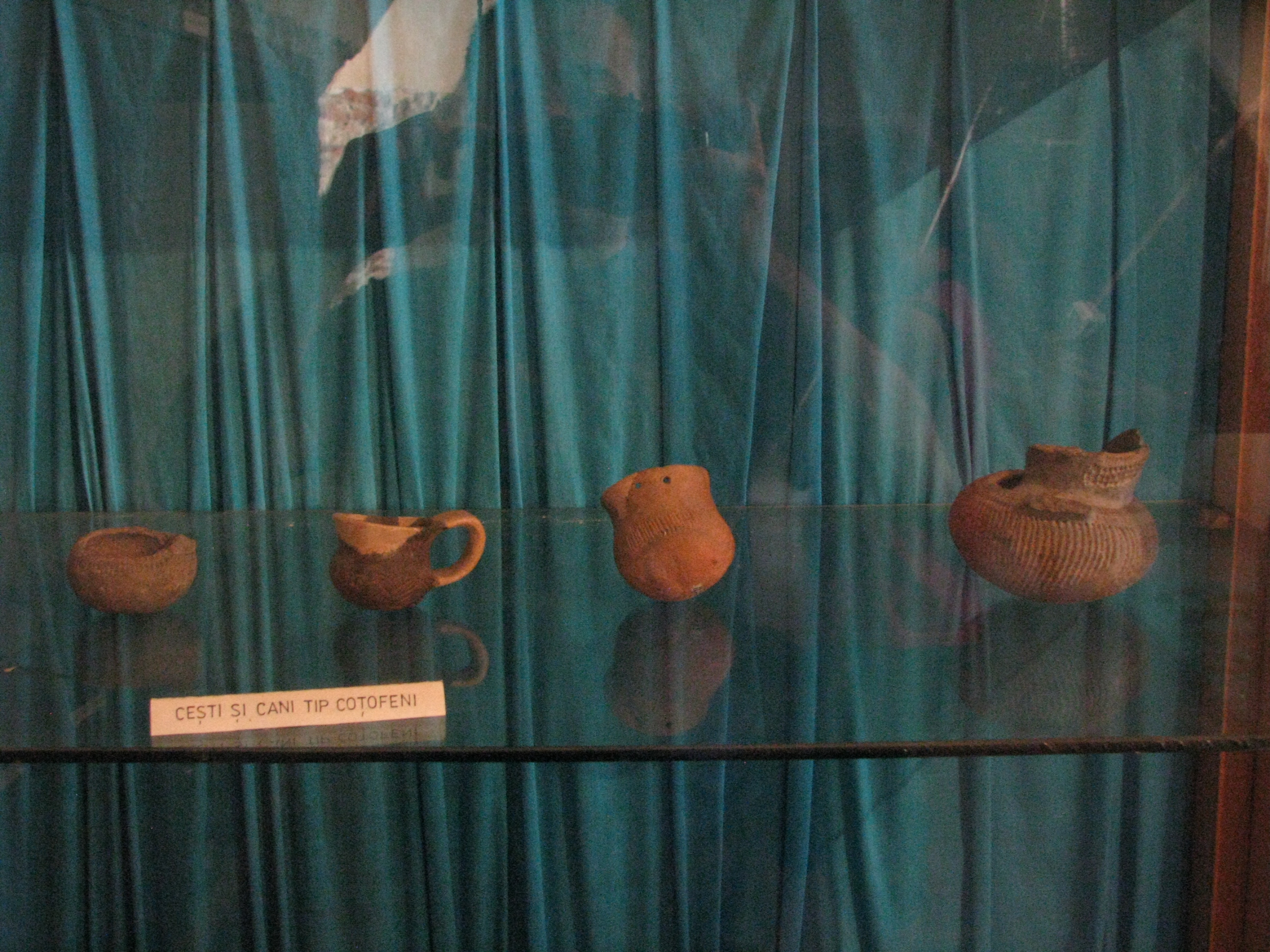 Aiud History Museum 2011